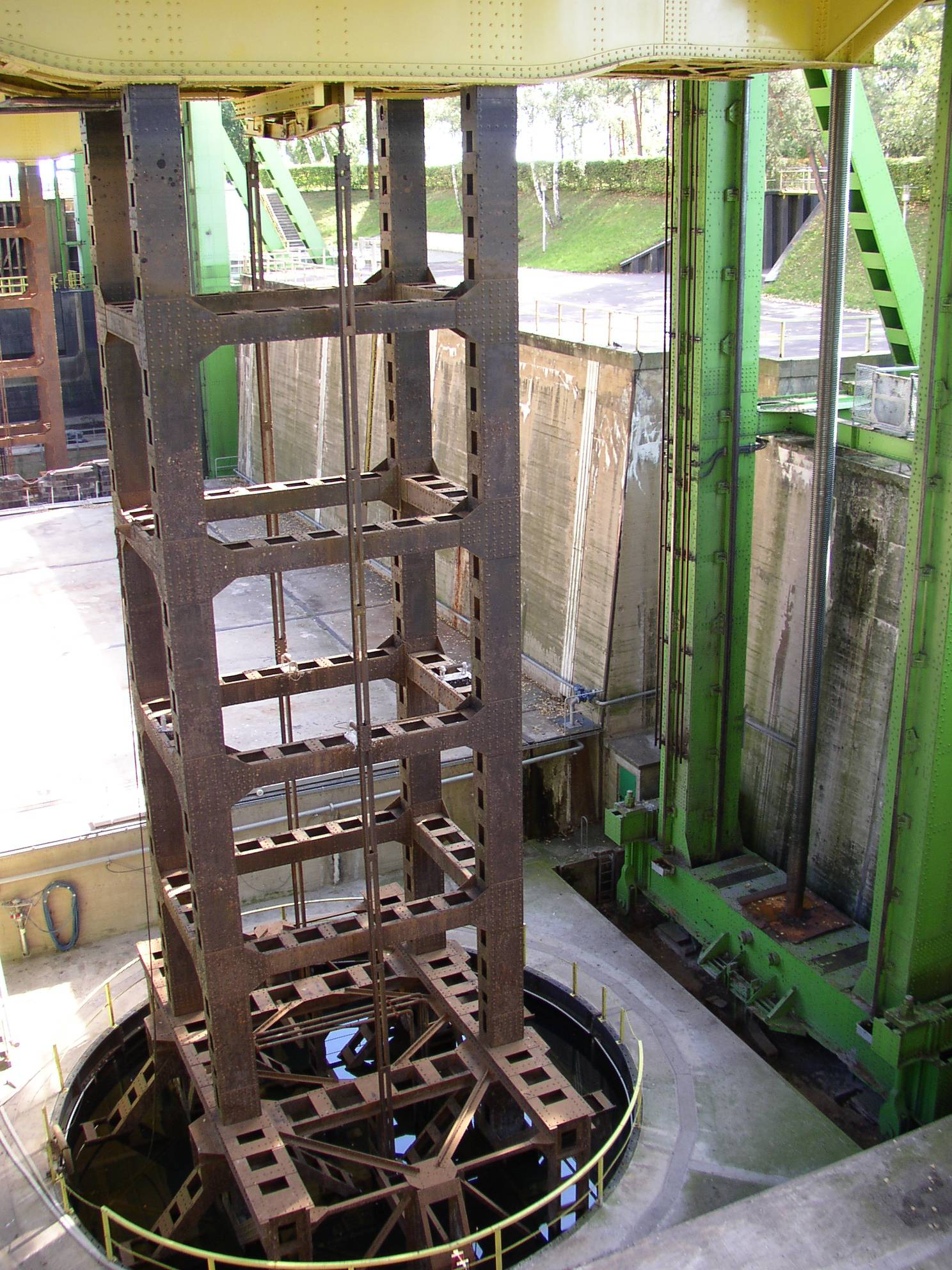 Ship lift in Magdeburg-Rothensee in Saxony-Anhalt, Germany